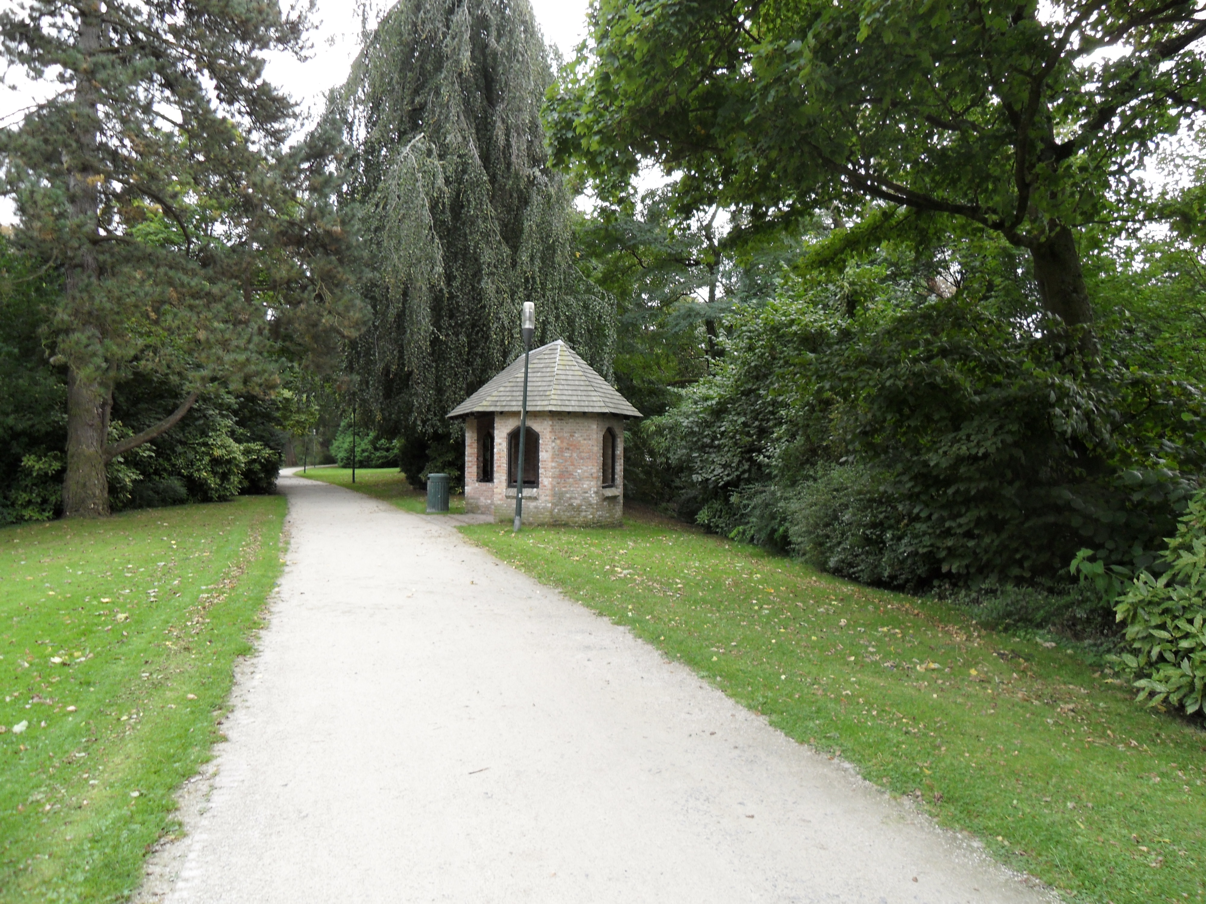 Buiten Smedenvest in Bruges